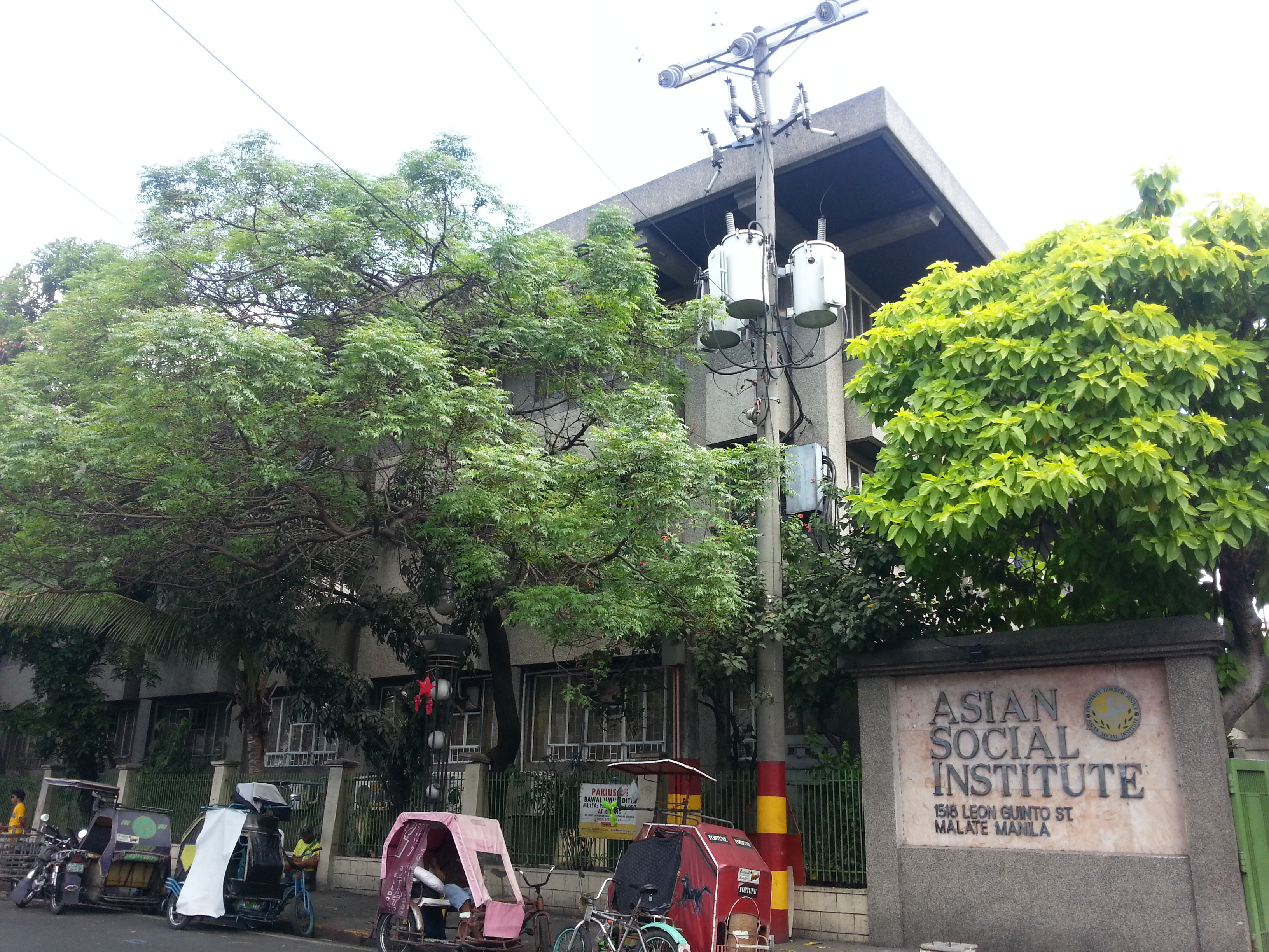 Facade of the Asian Social Institute 1518 Leon Guinto Street, Malate, Manila, An Asian Social Science Graduate School corner Pedro Gil Street.